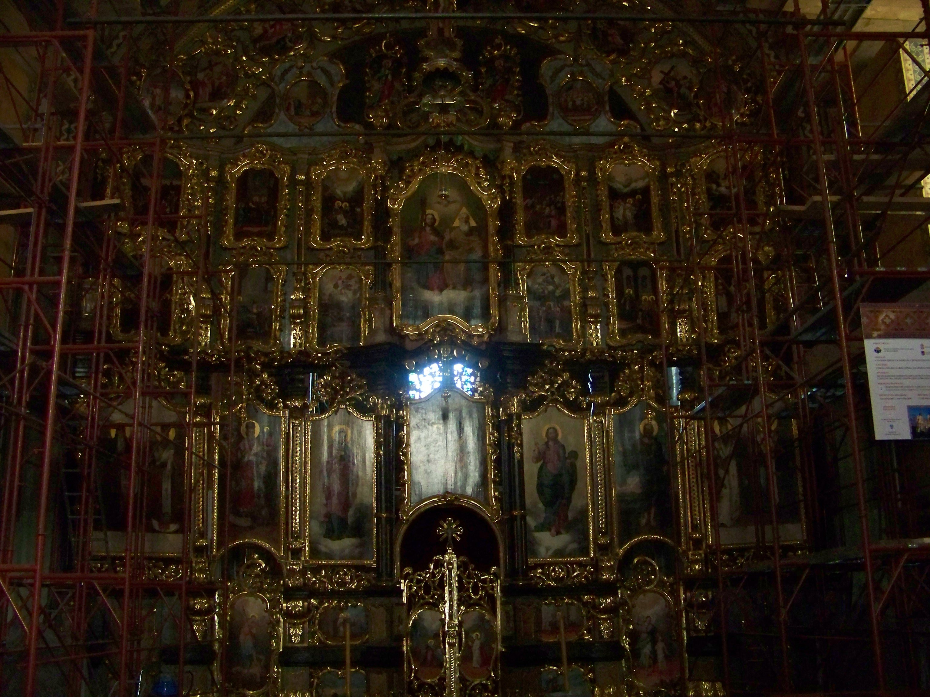 Sremski Karlovci, St. Nikola Orthodox church